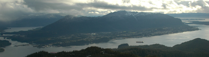 This photo of Prince Rupert was taken from Mount Morse